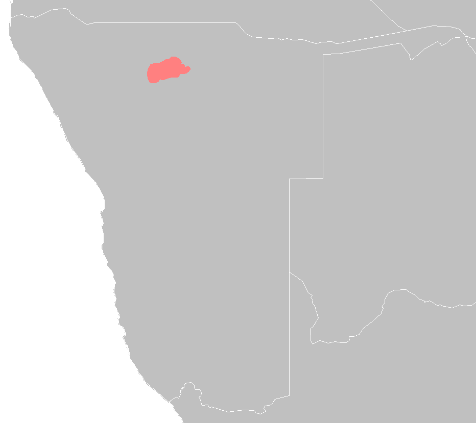 Etosha Pan halophytics ecoregion map